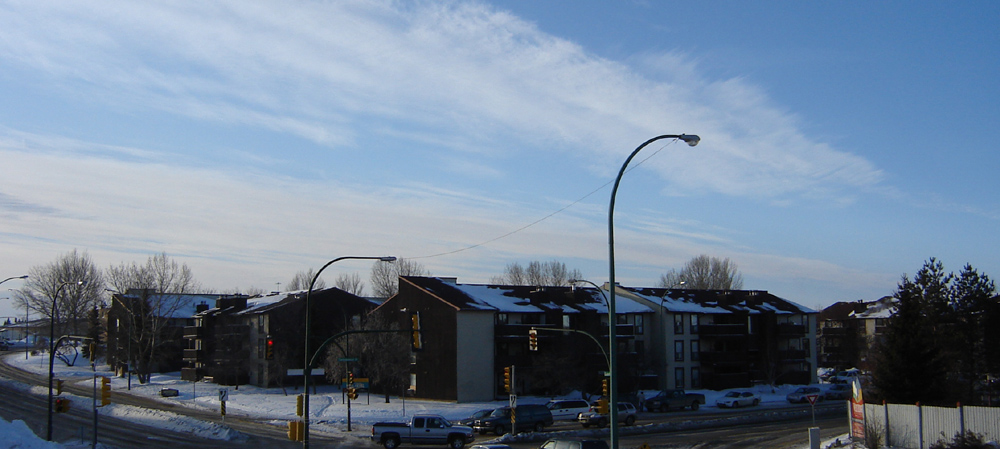 Apartment Block Complex, Confederation Suburban Centre, Confederation SDA, Saskatoon, Saskatchewan, Canada